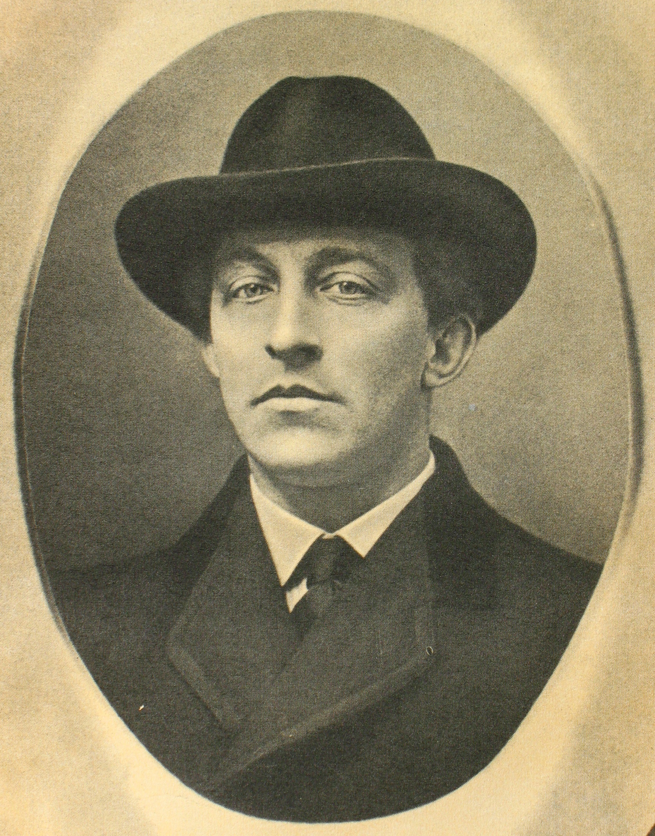 Russian poet Alexander Blok (dead in 1921). Russian Empire paspartu.